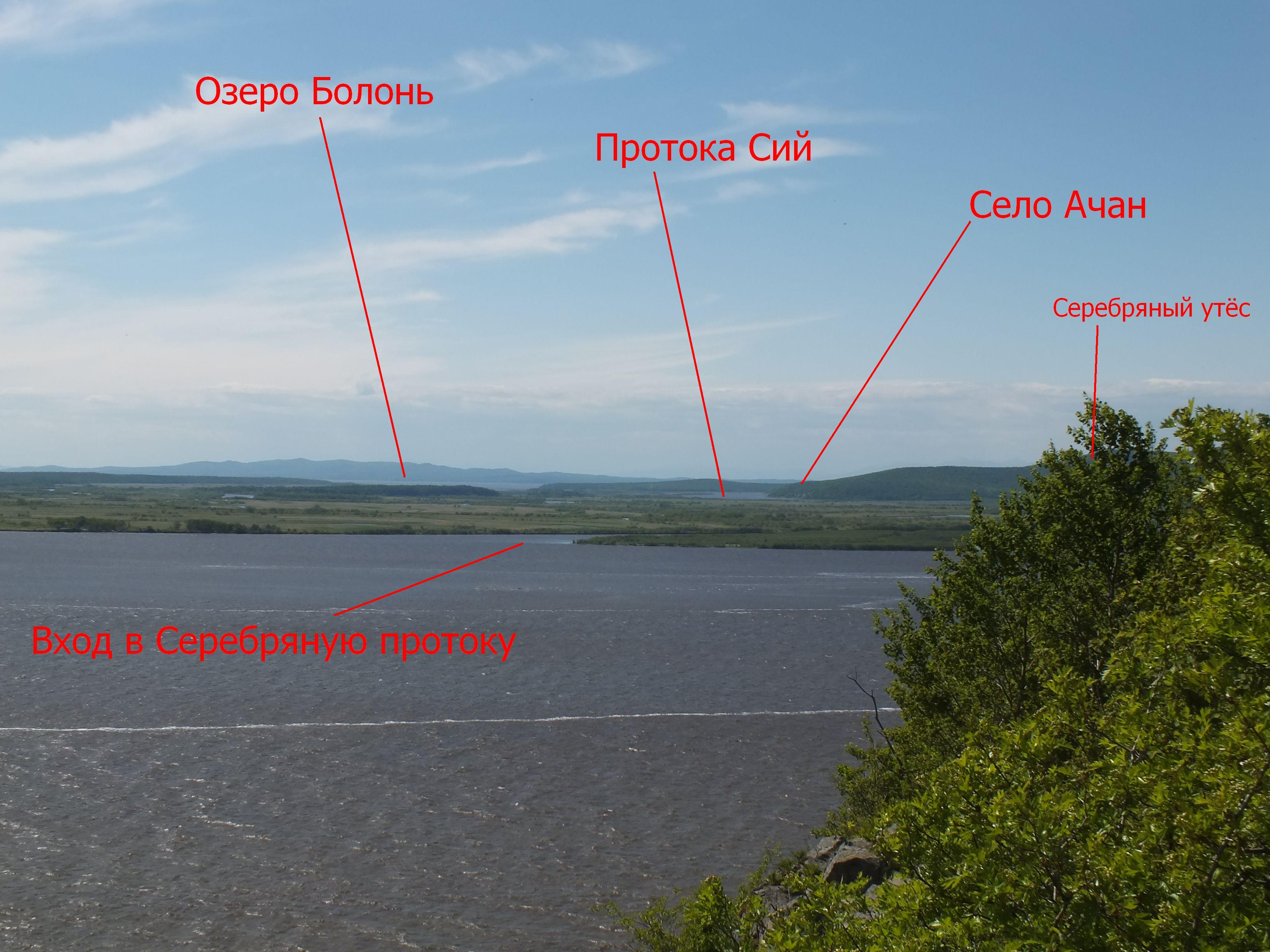 Lake Bolon